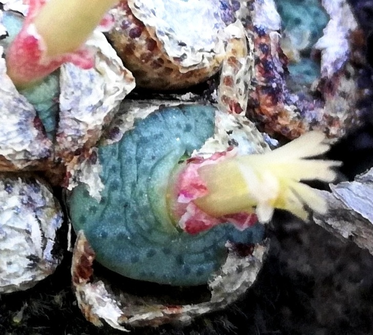 Conophytum truncatum Touws